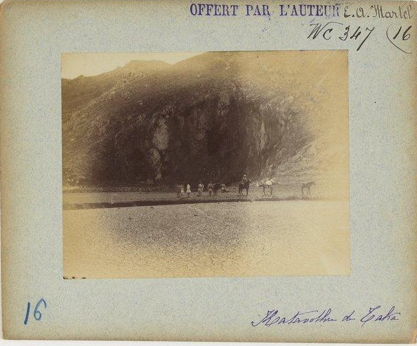 Taka lake of Arcadia Greece